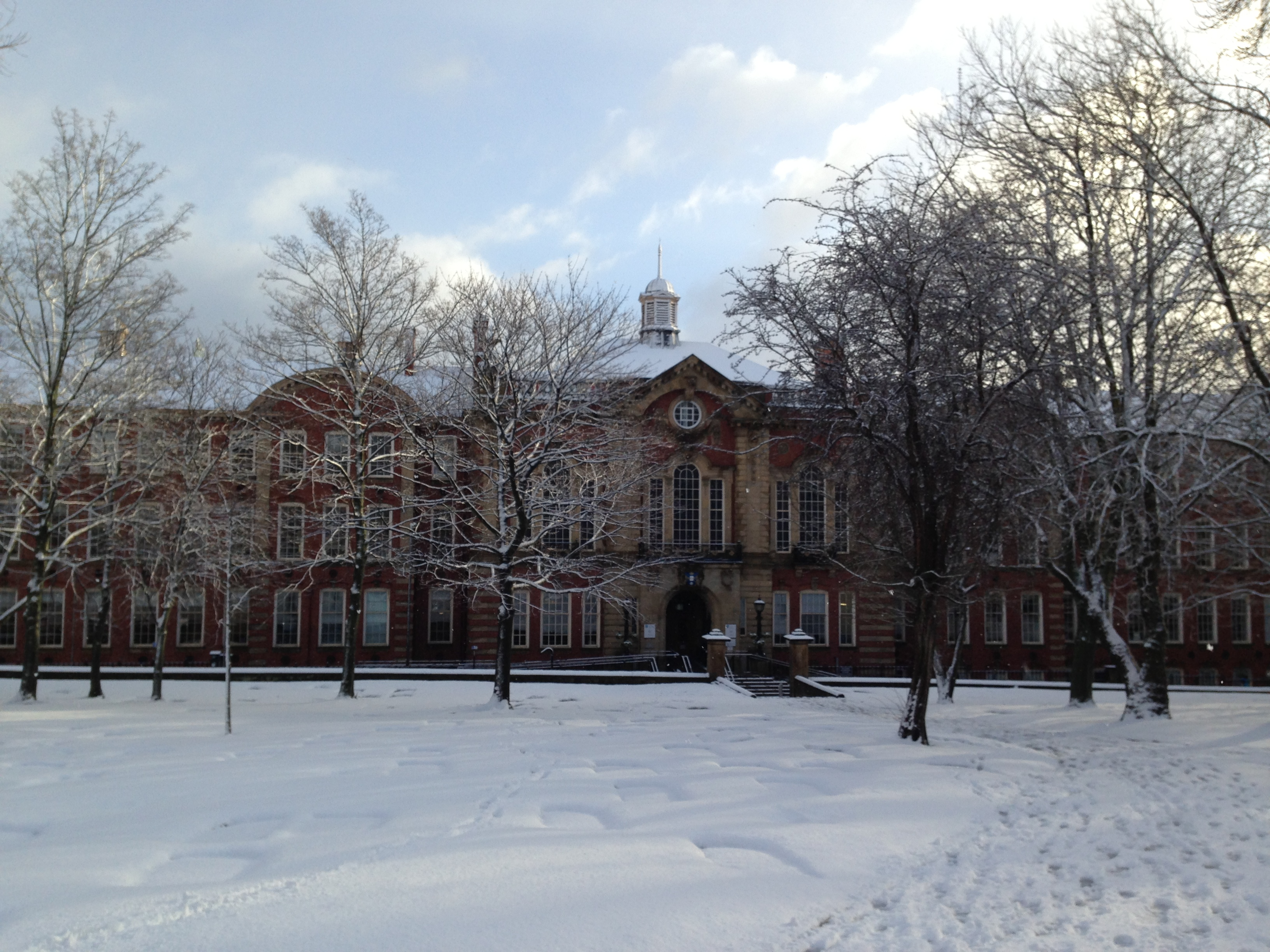 Shefunimappinbuildingwinter